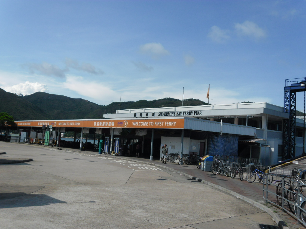 Mui Wo Ferry Pier中文（香港）: 梅窩渡輪碼頭